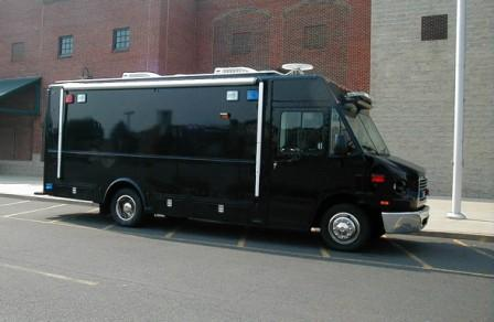 SWAT TEAM VEHICLE / 20' BODY, Freightliner MT45, 19K GVWR, 220HP Diesel, Auto Trans, 20' Aluminum Walk-in Van Body, FRP Walls, Loop Pile Fabric Ceilings, PVC Flooring, Communications Area, Galley, Conference Room, Heat, Ventilation, AC, Generator, Scene Lighting, ..., about $ 178.000.